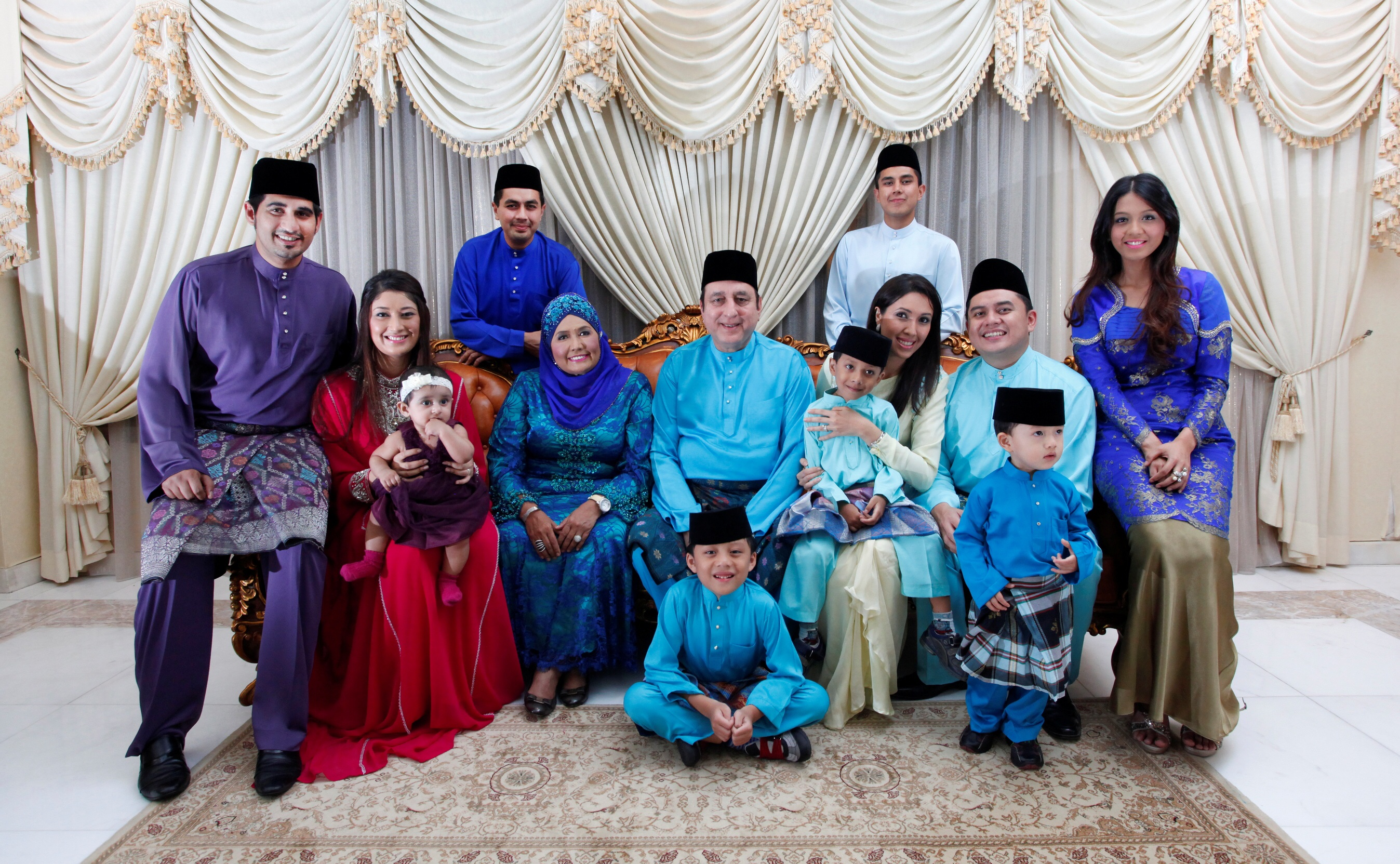 Datuk Dr Maznah' s family